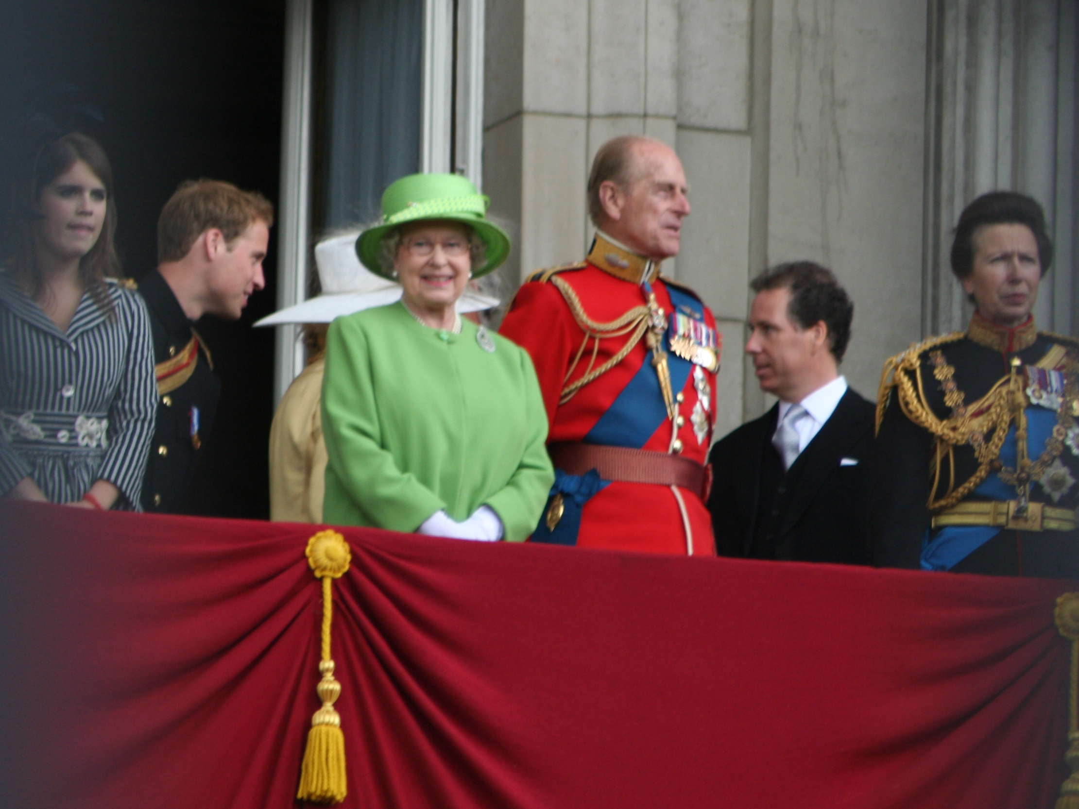 British Royal Family on Balcony for Queen's Official BirthdayTrooping the Colour, Saturday June 16th 2007